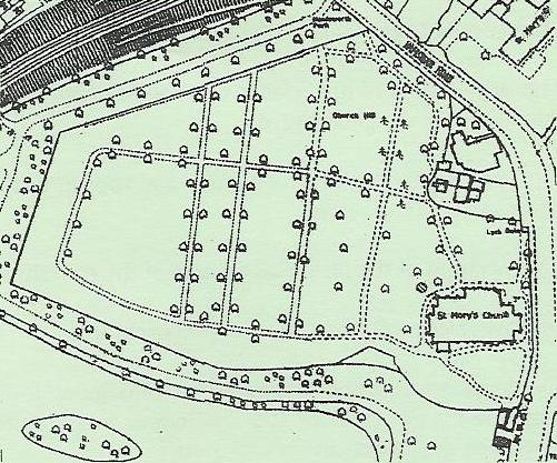 Plan from a 1904 Ordnance Survey map of Birmingham Sibadd 00:01, 16 March 2006 (UTC)